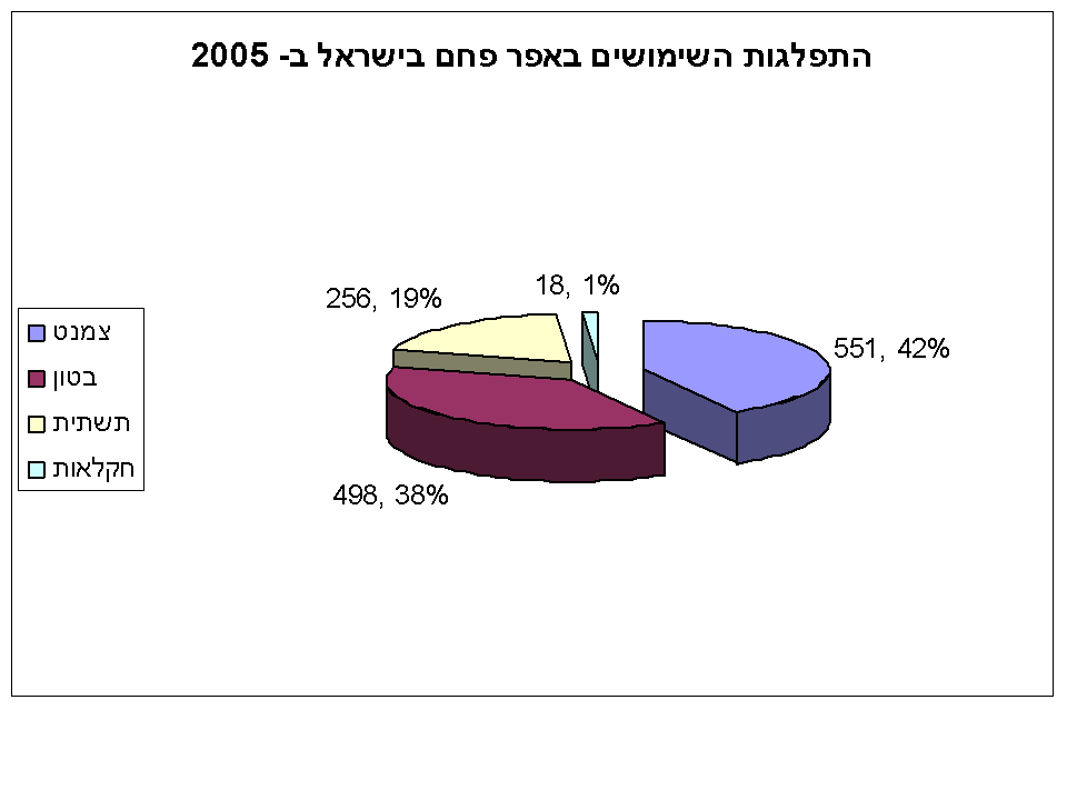 Uses of Fly Ash in Israel